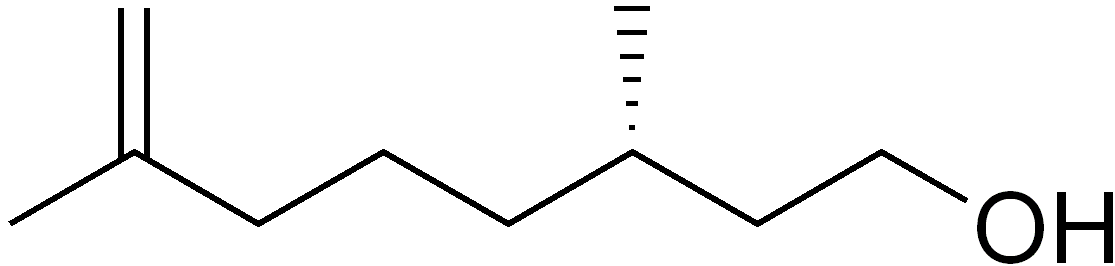 chemical structure of rhodinol